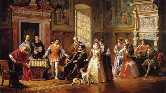 Partita a scacchi tra Ruy Lopez e Leonardo da Cutro alla Corte di Spagna